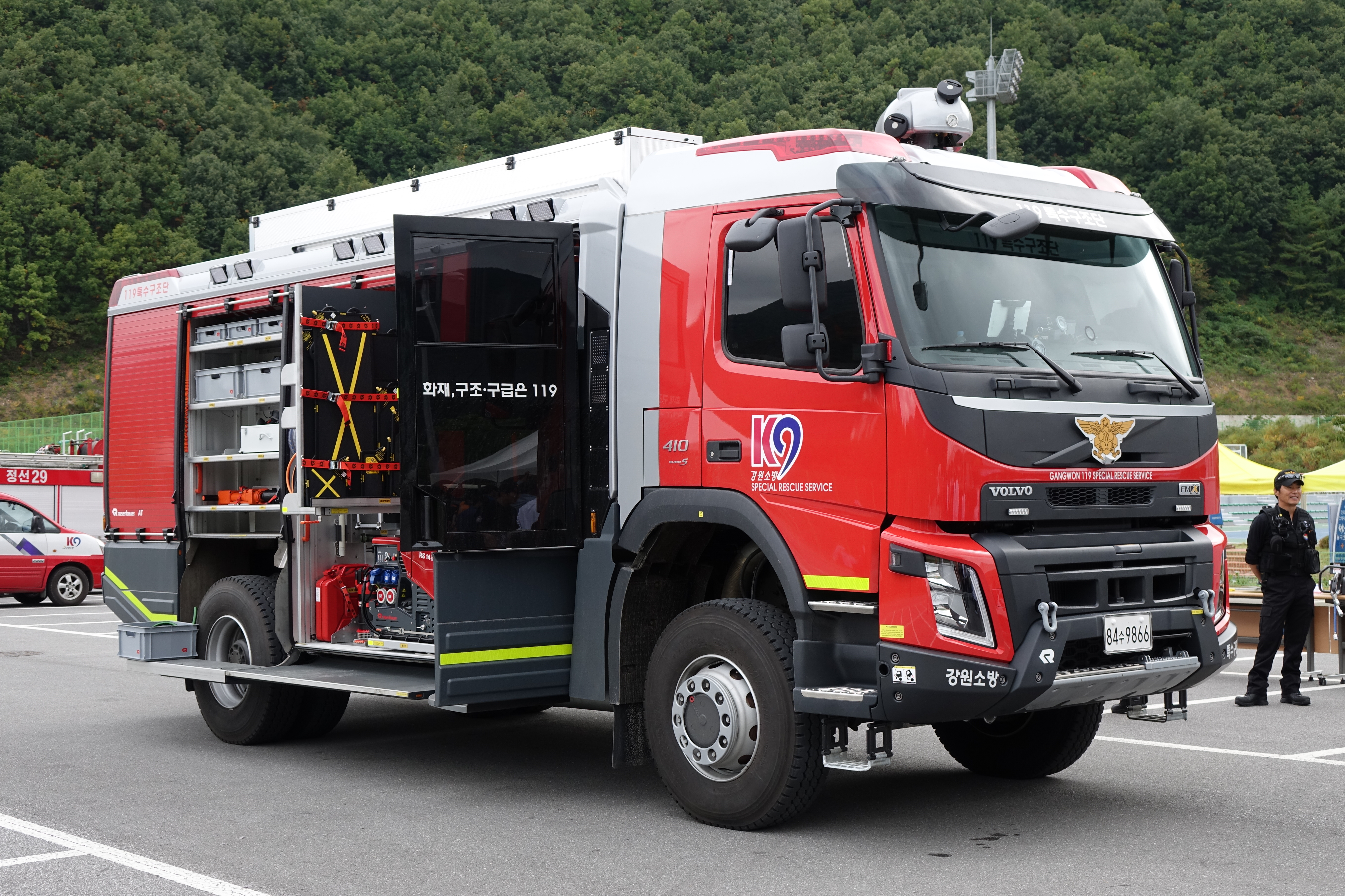 본 저작물을 'CC0 1.0 보편적 퍼블릭 도메인 기증' 저작권으로 배포합니다. 사진에 대해 궁금하신 점이나 원본 파일(ARW)을 원하시는 분은 여기로 연락주세요. 감사합니다. 2015년 10월 4일. 최광모.